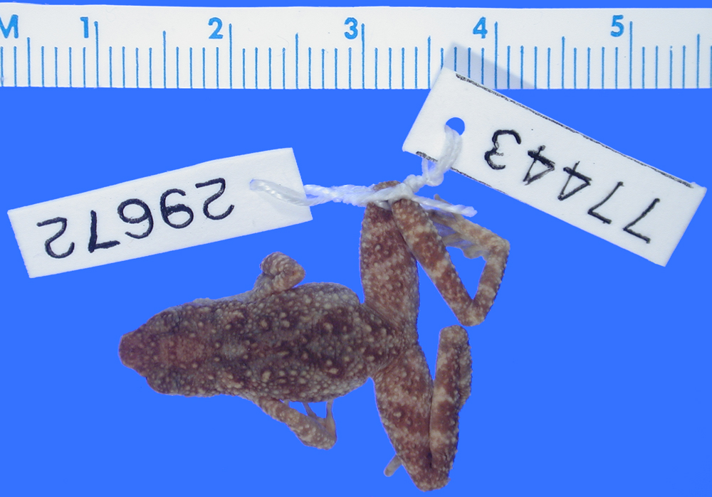 Dorsal view of Ansonia minuta, paratype. (MCZ:Herp:A-29672)